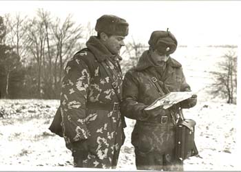 Libava, winter 1985